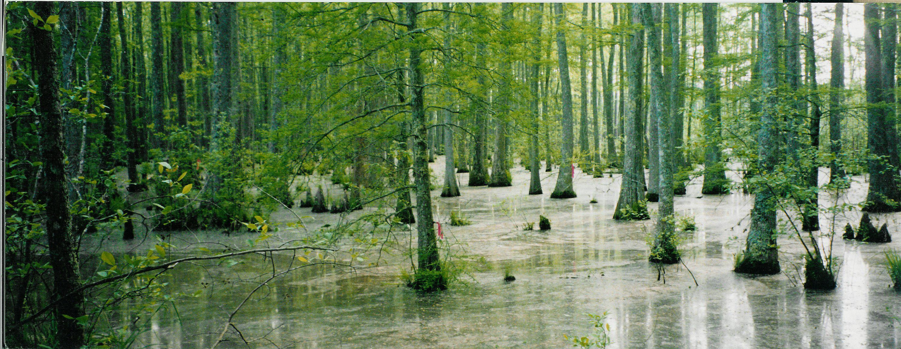 Bottomland hardwood swamp at the confluence of Tubby Creek and the Wolf River in the Holly Springs National Forest near Ashland, Mississippi. The red ribbons [visible in the center of the image] were used for navigation purposes by members of the Wolf River Conservancy in completing the first-ever full descent of the Wolf River in 1998. At the time, this location was considered to be the river's head of navigation, but the canoers had to first discover a way to navigate from the put-in to the actual river channel, located approximately 200 meters to the south. The resulting "path" was marked with the engineer's tape. From this point, the Wolf River flows alternately west and north into West Tennessee, joining the Mississippi River in downtown Memphis.